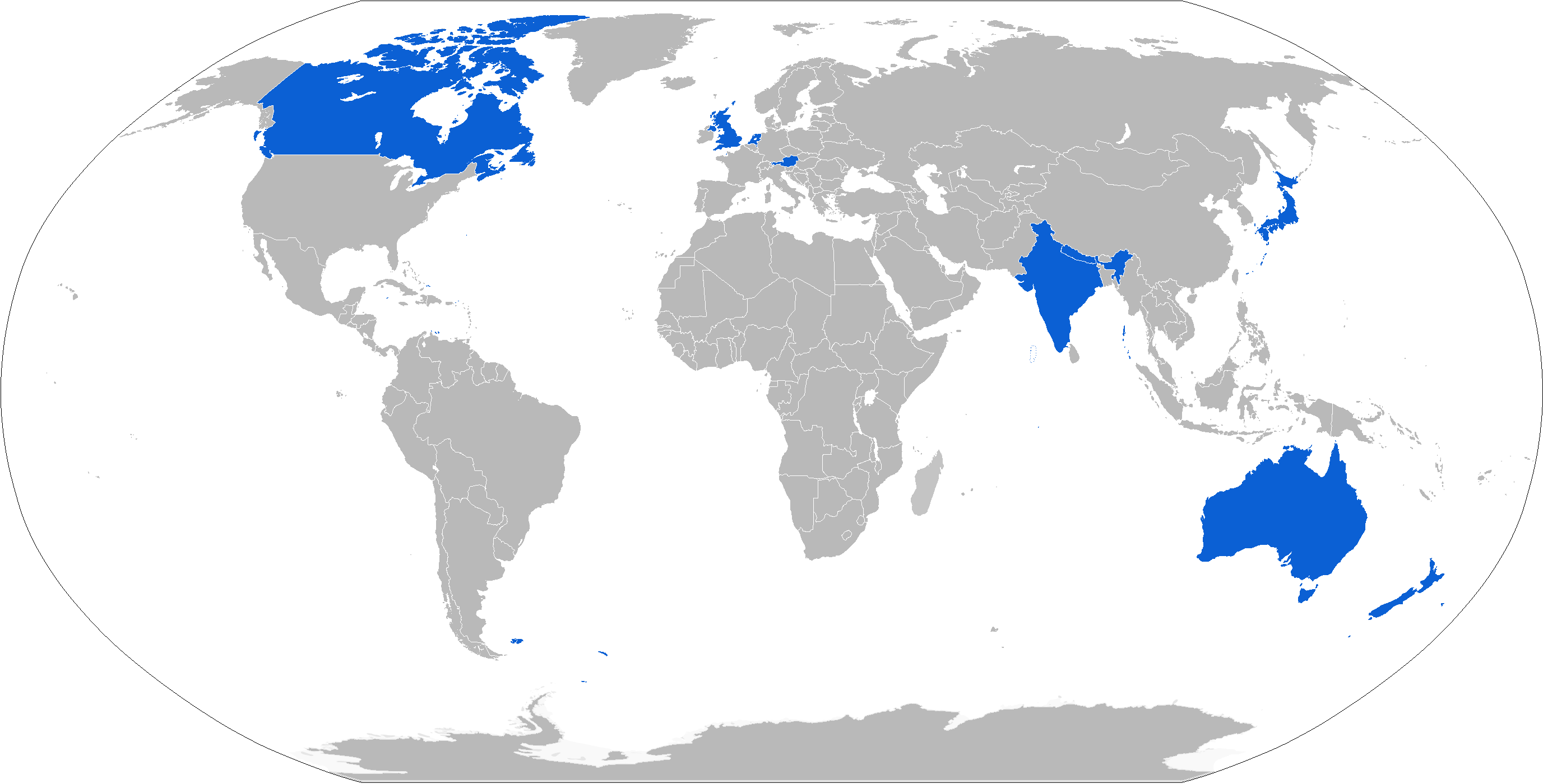 Map with L18 operators in blue